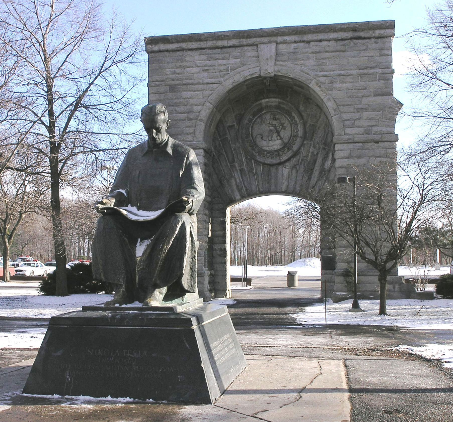 Tesla Monument at Goat Island, Niagara Falls, New York. Gift of Yugoslavia to the United States, 1976. The monument was the work of Croatian sculptor Frano Kršinić. Taken by Daniel Mayer in late February 2006.